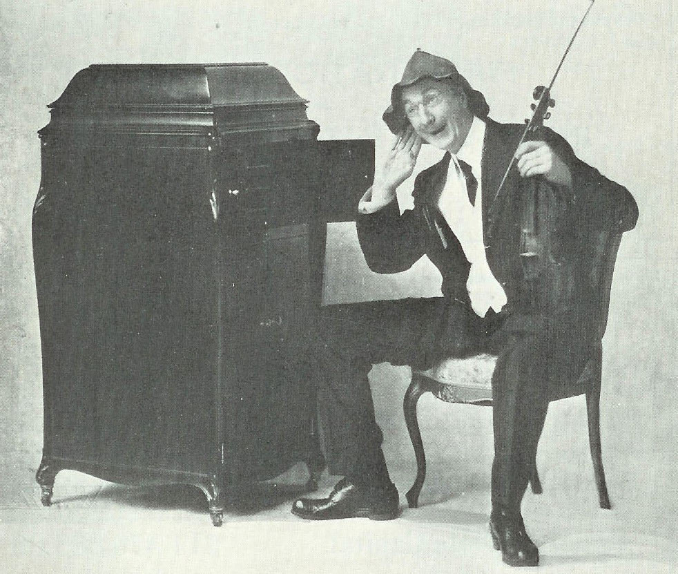 Charles Ross Taggart in his "Old Country Fiddler" costume.